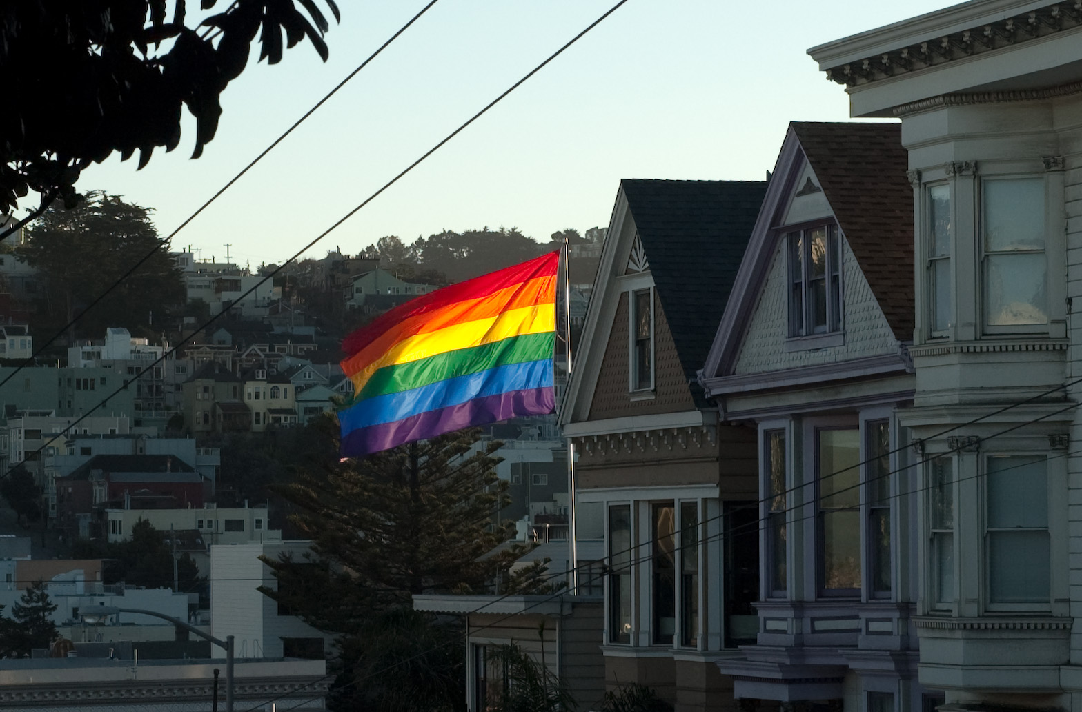 LGBT flag in The Castro, San Francisco, California.